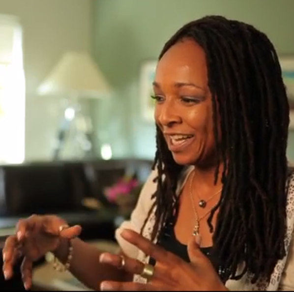 Siedah Garrett (born June 24, 1960) is an American singer and songwriter, who has written songs and performed backing vocals for many recording artists in the music industry, This is from a creative commons Vimeo!